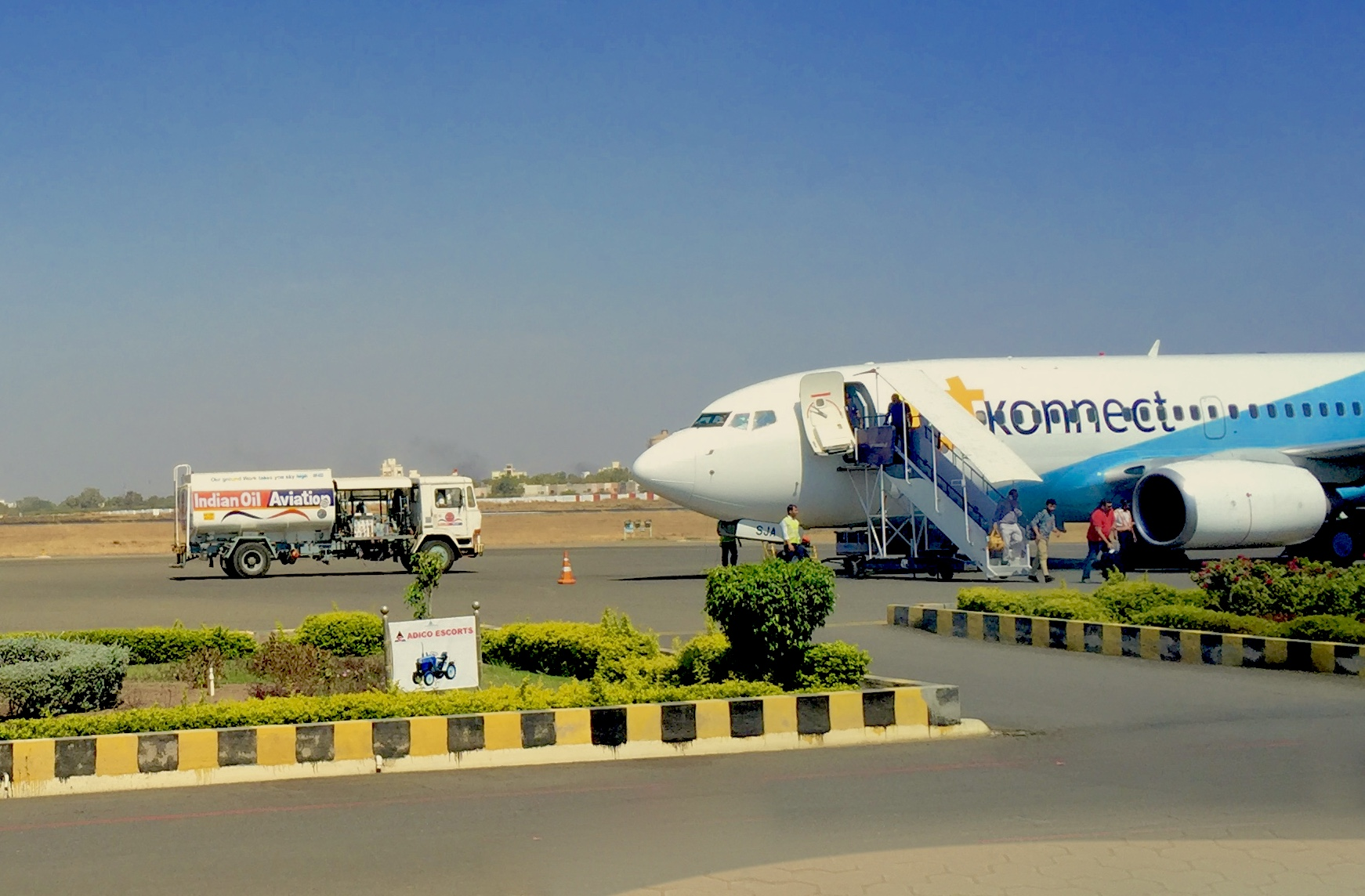 A Jet Airways aircraft and refuelling truck on the apron at Rajkot Airport in Gujarat, India